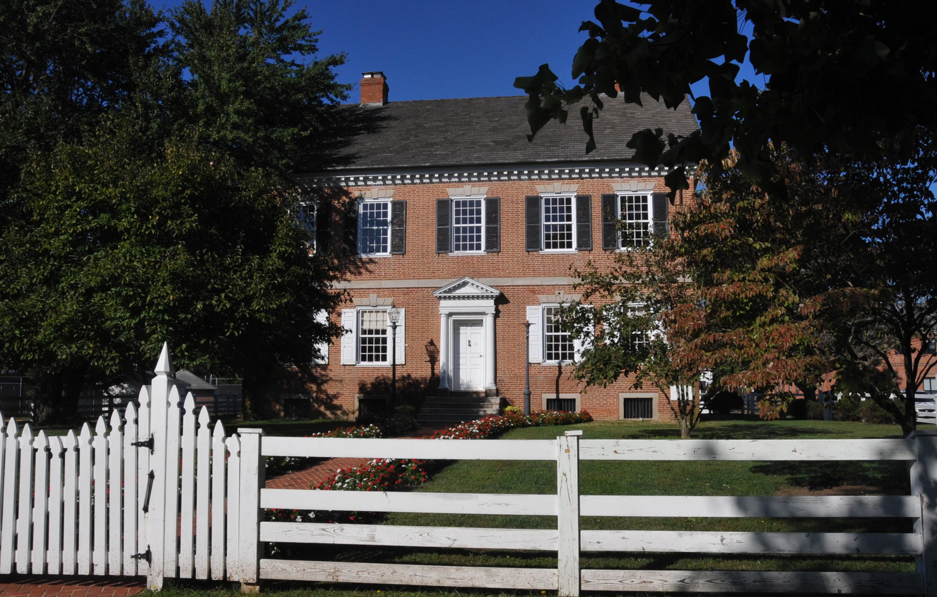 Loockerman Hall CENTER OF THE DELAWARE STATE CAMPUS; BUILT CIRCA 1770